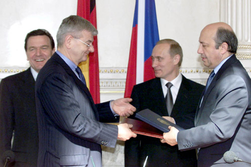 MARIINSKY PALACE, ST PETERSBURG. President Vladimir Putin and Chancellor Gerhard Schroeder watching Foreign Ministers Igor Ivanov, right, and Joschka Fischer sign agreements negotiated during Russian-German inter-governmental consultations.